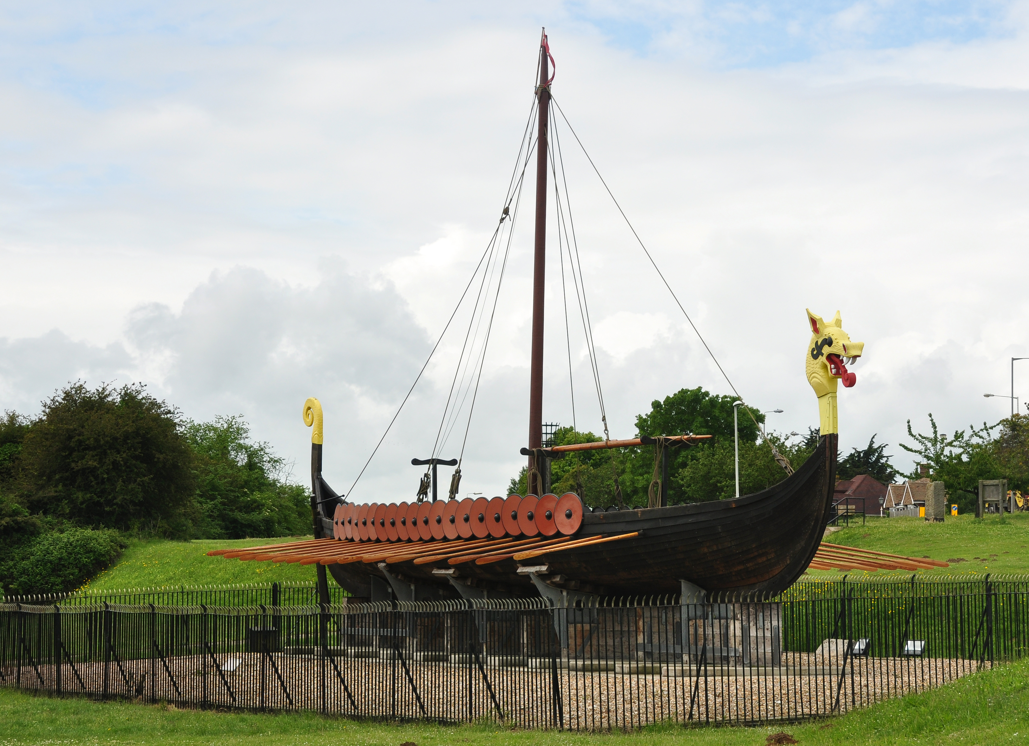 The replica Viking ship Hugin in Cliffsend, Kent.